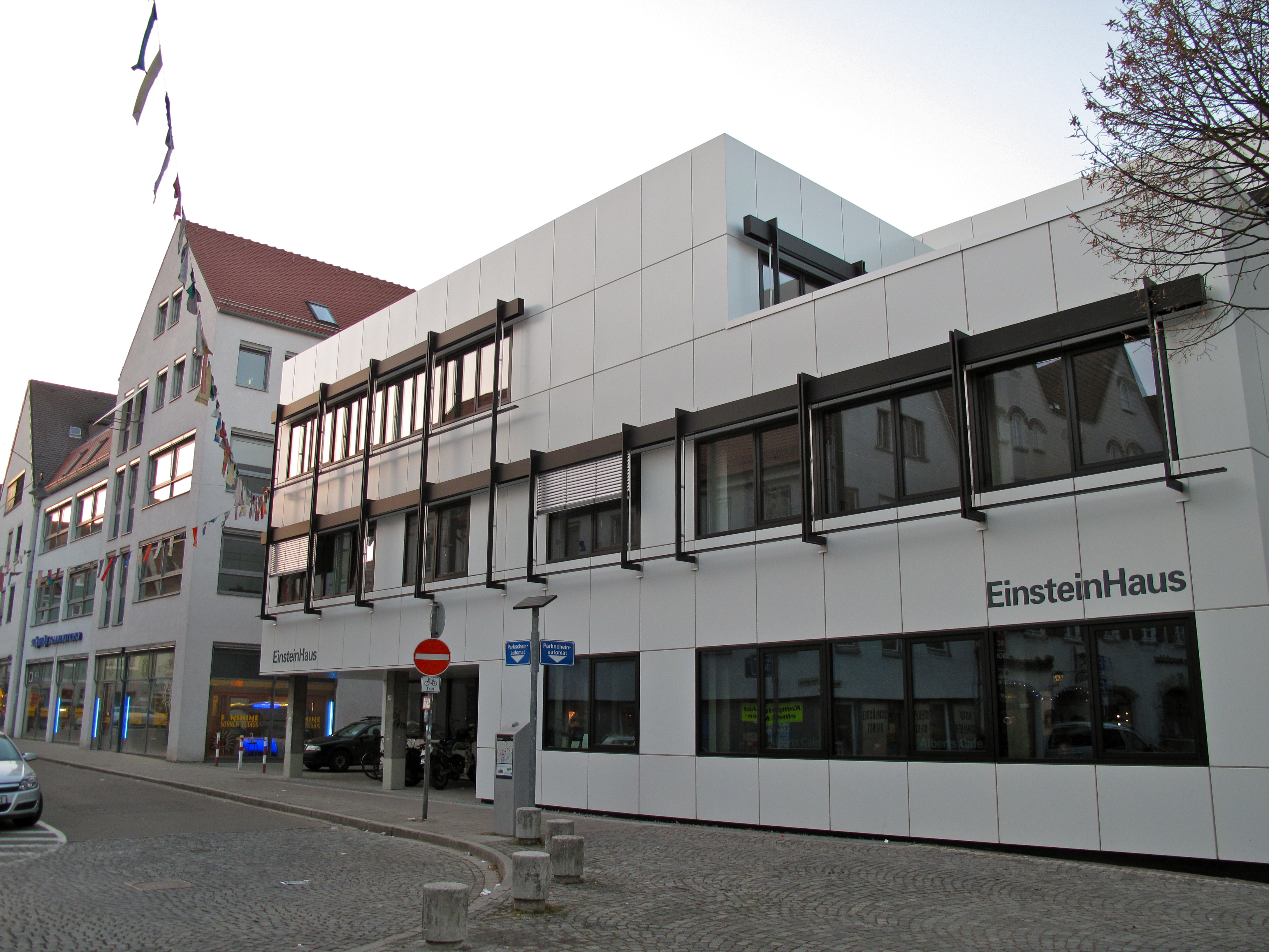 The EinsteinHaus (right) of the Ulmer Volkshochschule (vh Ulm) in the city centre of Ulm.